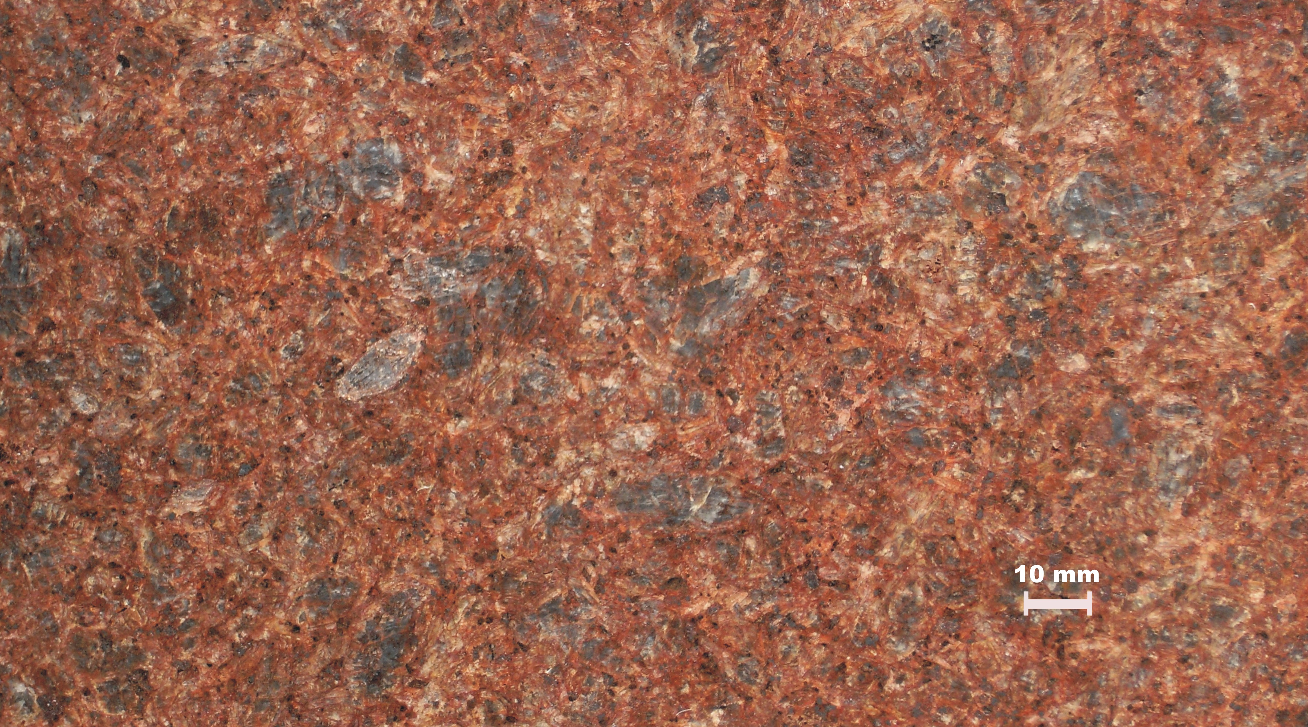 sample of Tønsbergite (syenite), Norway, Oslofjord